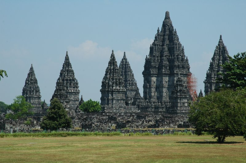 Candi Lara Jonggrang (Lara Jonggrang Temple), Prambanan, Indonesia